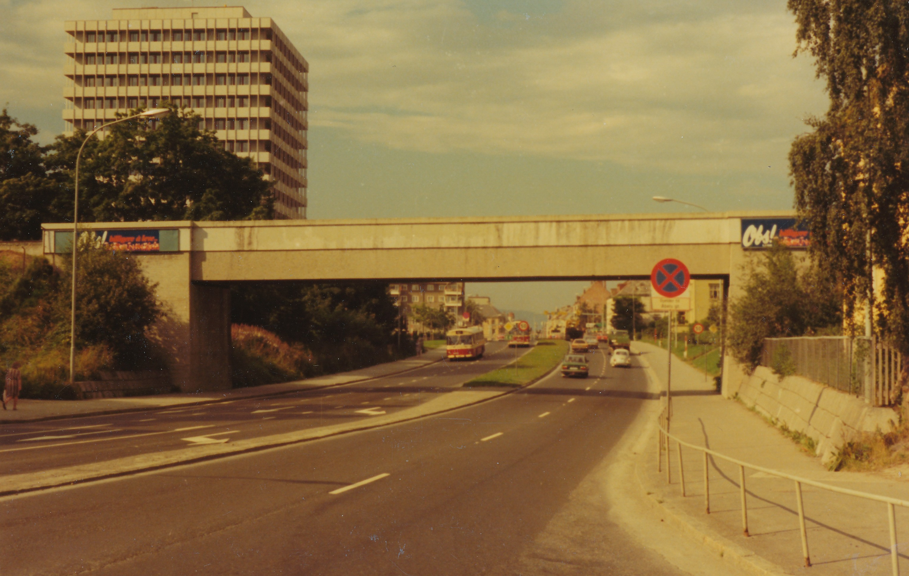 Format: Fotopositiv Dato / Date: Ukjent Fotograf / Photographer: Ukjent Sted / Place: Holtermanns veg, Trondheim Street View: Holtermanns veg / Strindvegen Eier / Owner Institution: Trondheim byarkiv, The Municipal Archives of Trondheim Arkivreferanse / Archive reference: Tor.H40.B12.F0752 [T1206]